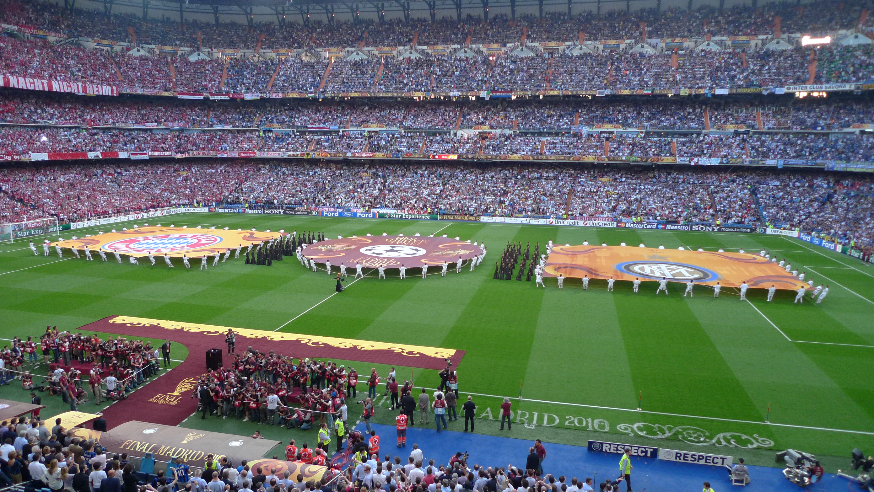 2010 UEFA Champions League Final (FC Bayern München 0-2 FC Internazionale Milano)